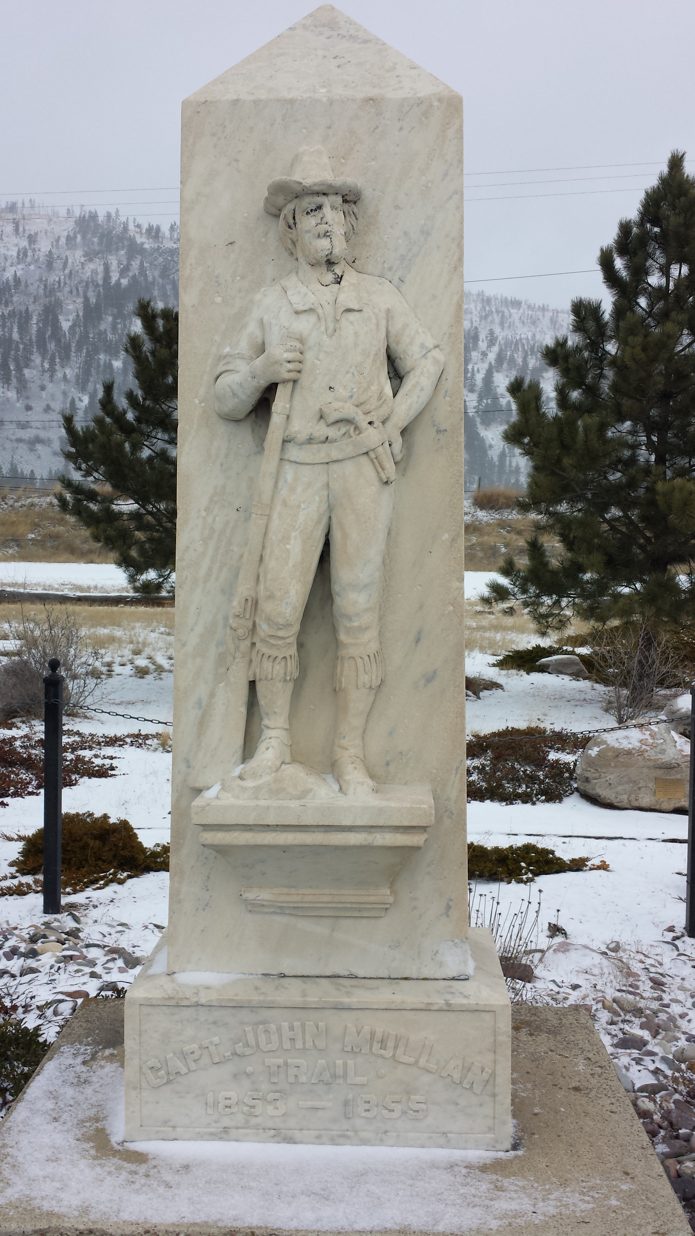 John Mullin monument, Bonner, Montana, near Missoula, Montana.